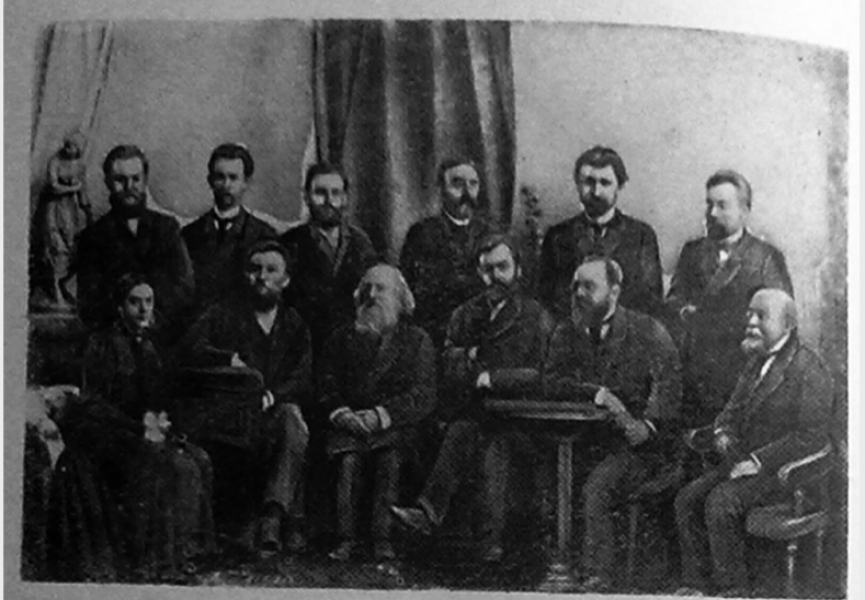 Professor Nikanor Chrzonszczewsky and his students (1890s)